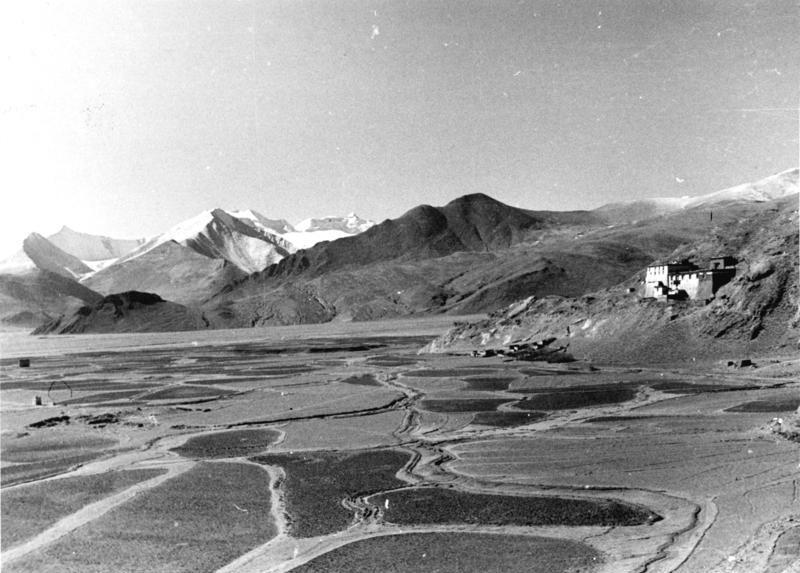 Nangkartse, Dzong, Burg, Felder, Landschaft Information added by Wikimedia users.